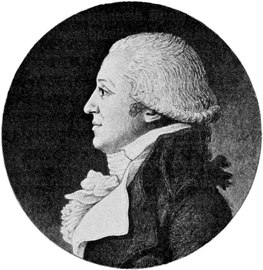 Stephanus Jacobus van Langen (1758-1847), was a cloth manufacturer from Leiden and a statesman from the patriotic movement at the time of the Batavian Republic.